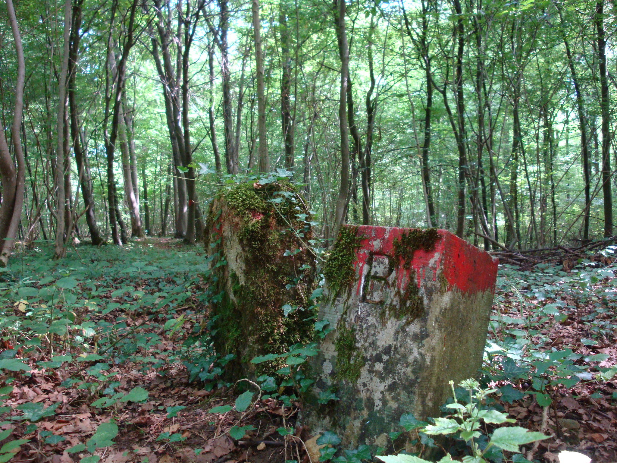 Borne-frontière France-Belgique à proximité de Longwy (France)